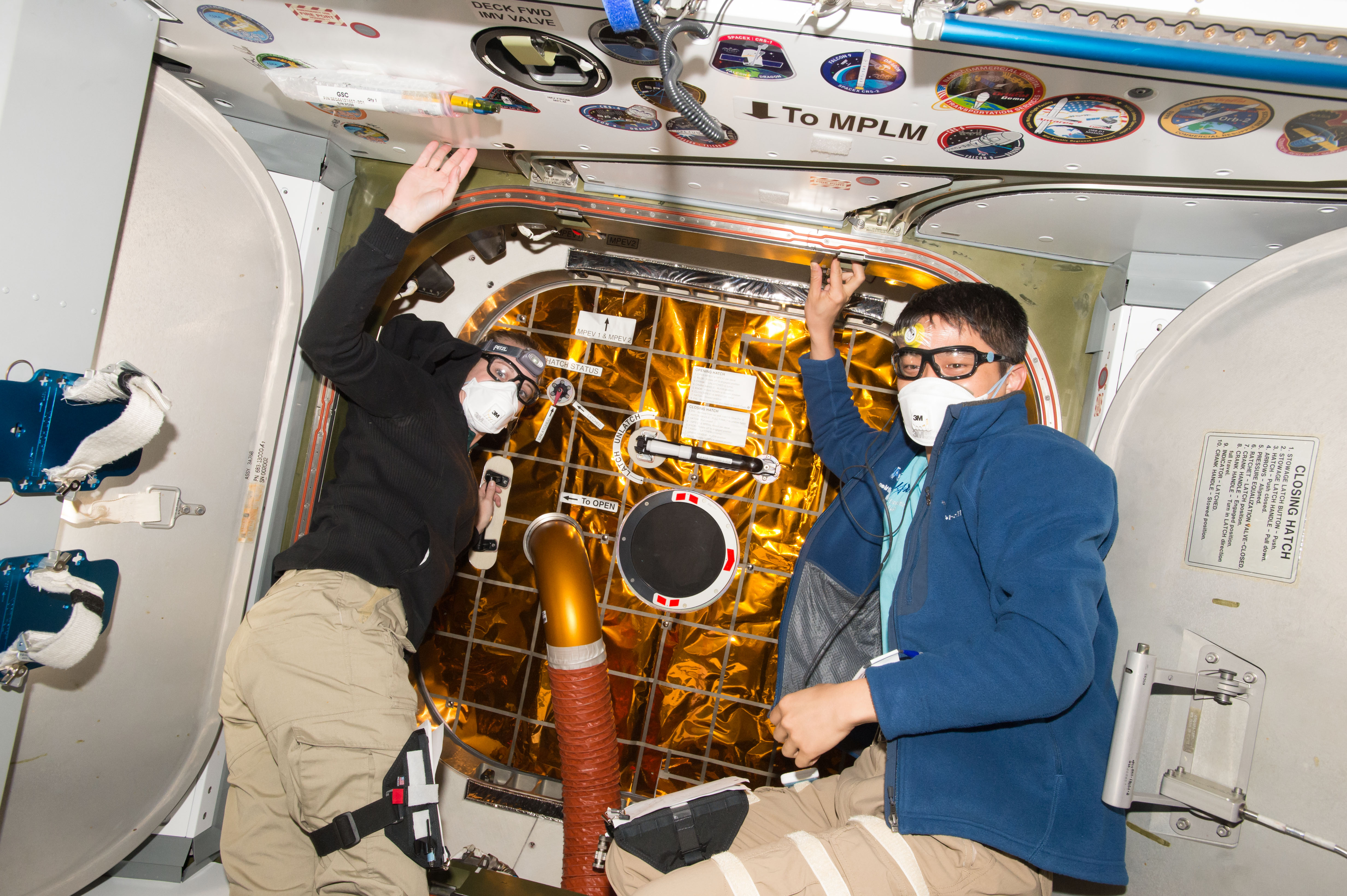 NASA astronaut Kate Rubins (left) and JAXA astronaut Takuya Onishi (right) prepare to open the hatch to SpaceX's Dragon cargo spacecraft. The vehicle delivered nearly 5,000 pounds of supplies, hardware and experiments to the Expedition 48 crew. It is standard procedure for crew members to wear personal protective equipment, including masks, goggles and sometimes gloves, when entering recently arrived spacecraft. This protects them from any potential debris that may have been shaken loose during the launch and ascent phases of the flight to orbit.